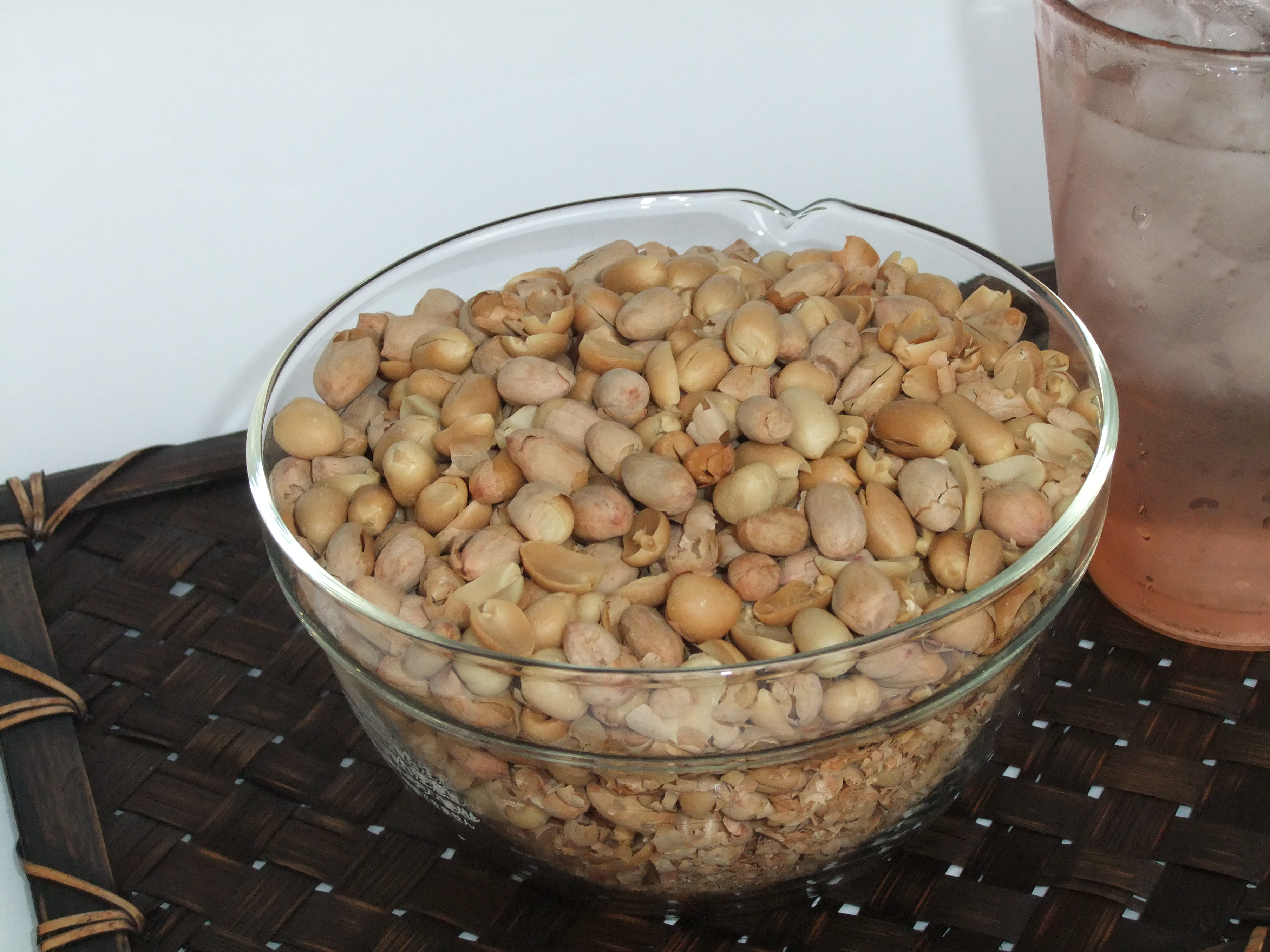 Kacang Oven, garlic flavored salty peanuts from, Jepara, Indonesia